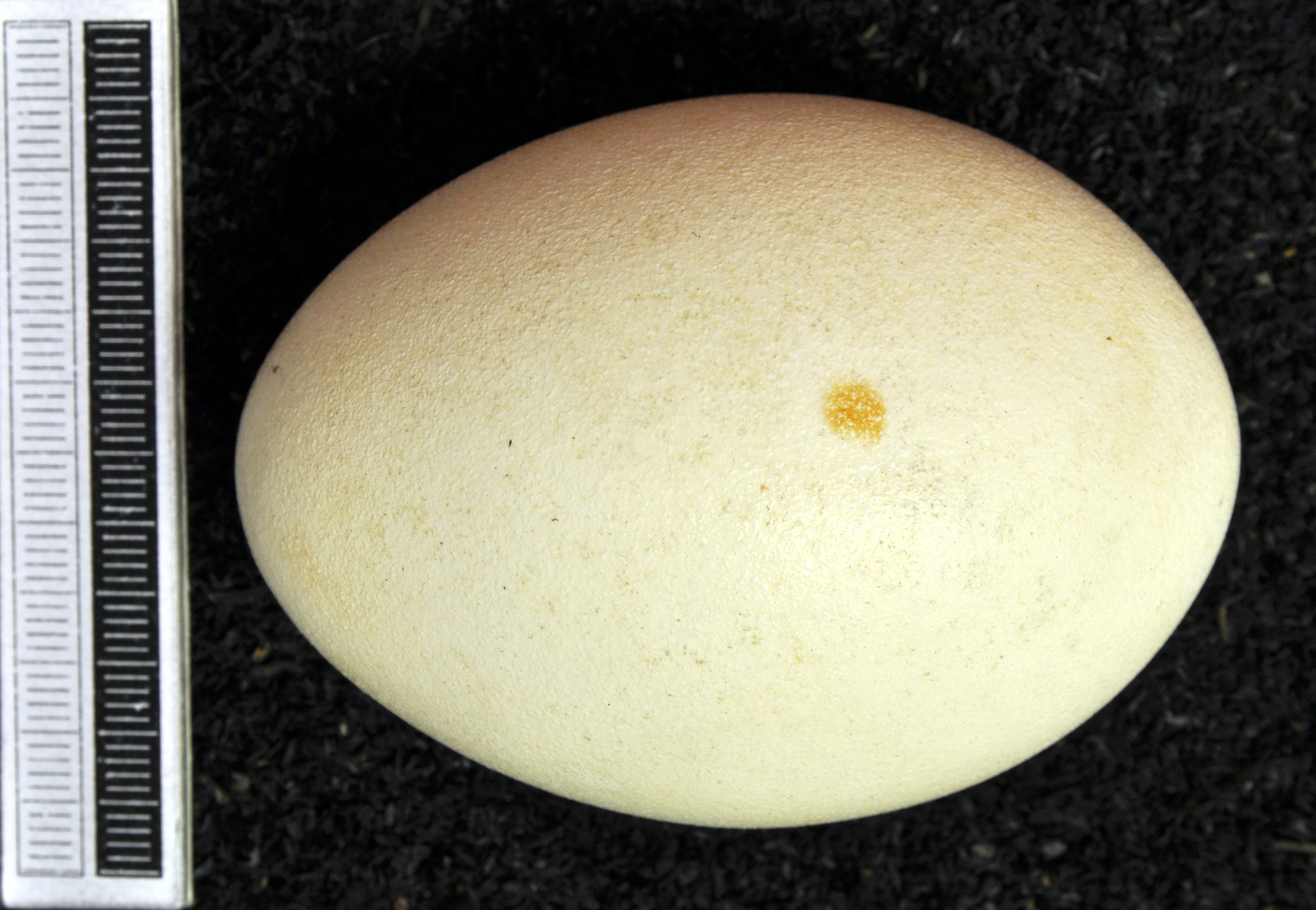 White-headed duck Oxyura leucocephala , egg, Coll. Museum Wiesbaden